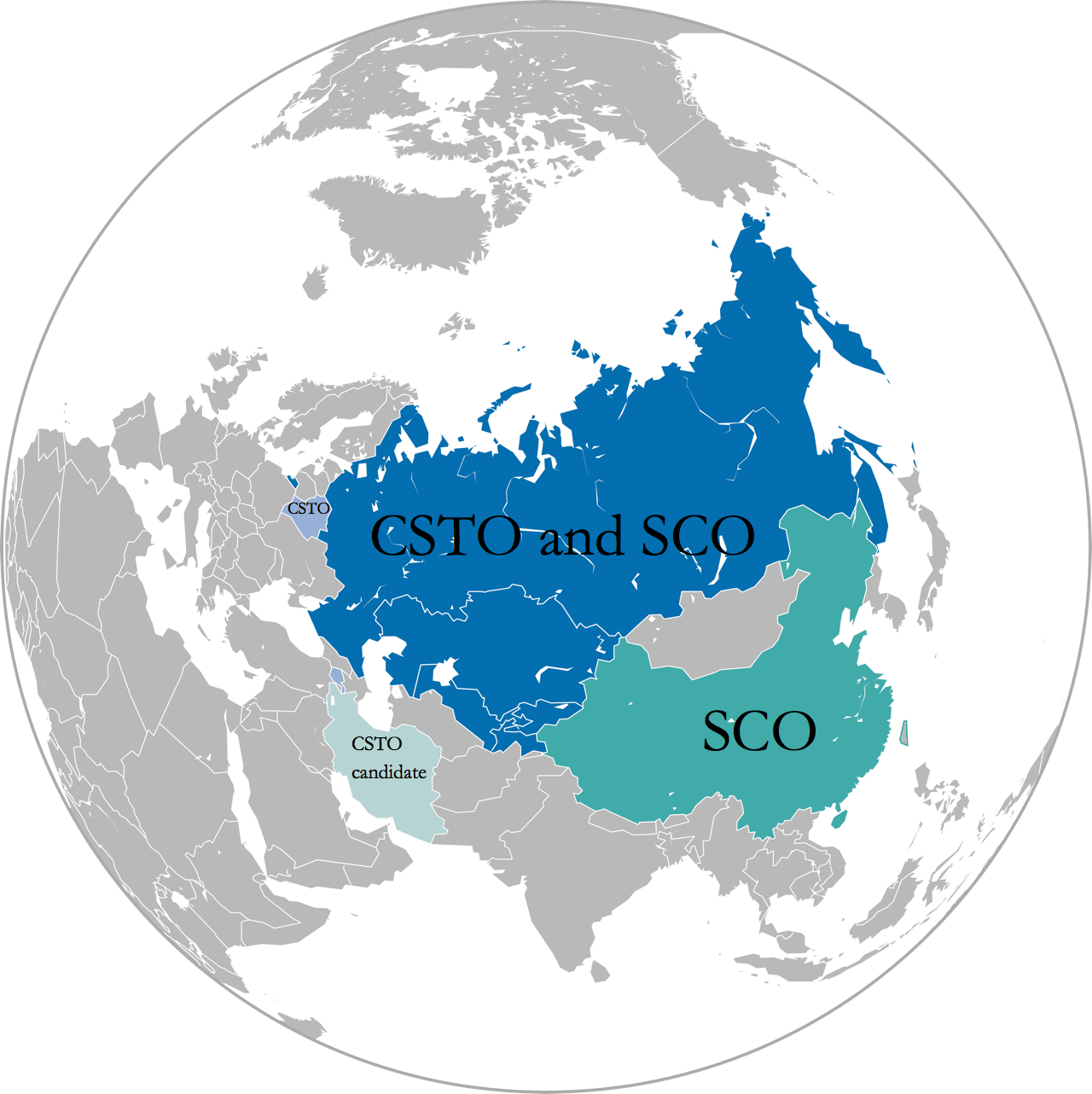 Collective Security Treaty Organisation (CSTO) and Shanghai Cooperation Organisation (SCO) members.